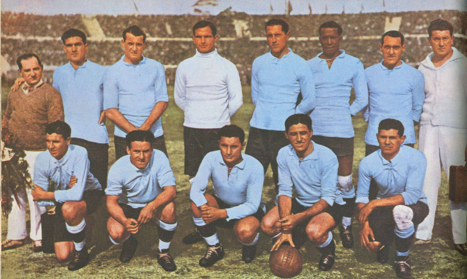 Uruguay national football team 1930 world cup winners